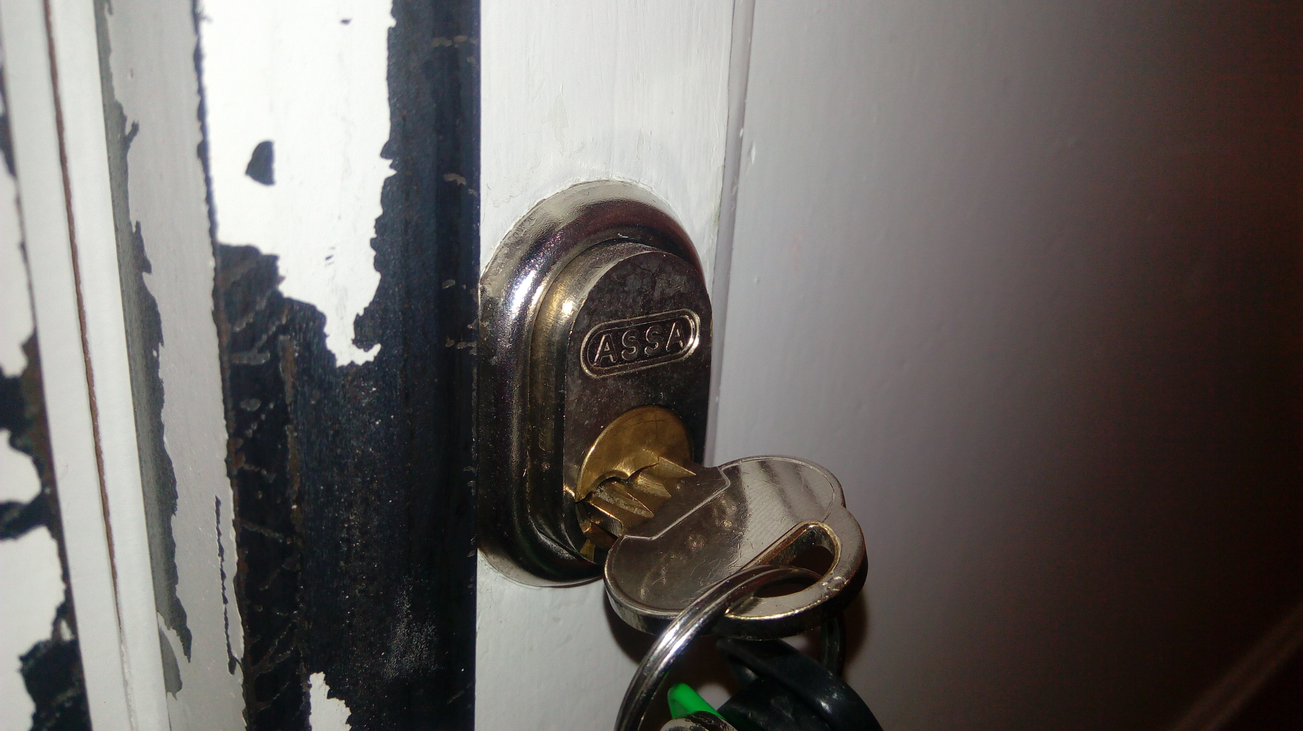 A Swedish Assa lock with a copied key.